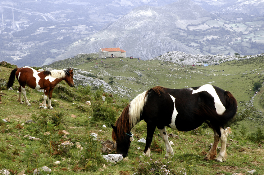 Ref.0242-Monsacro